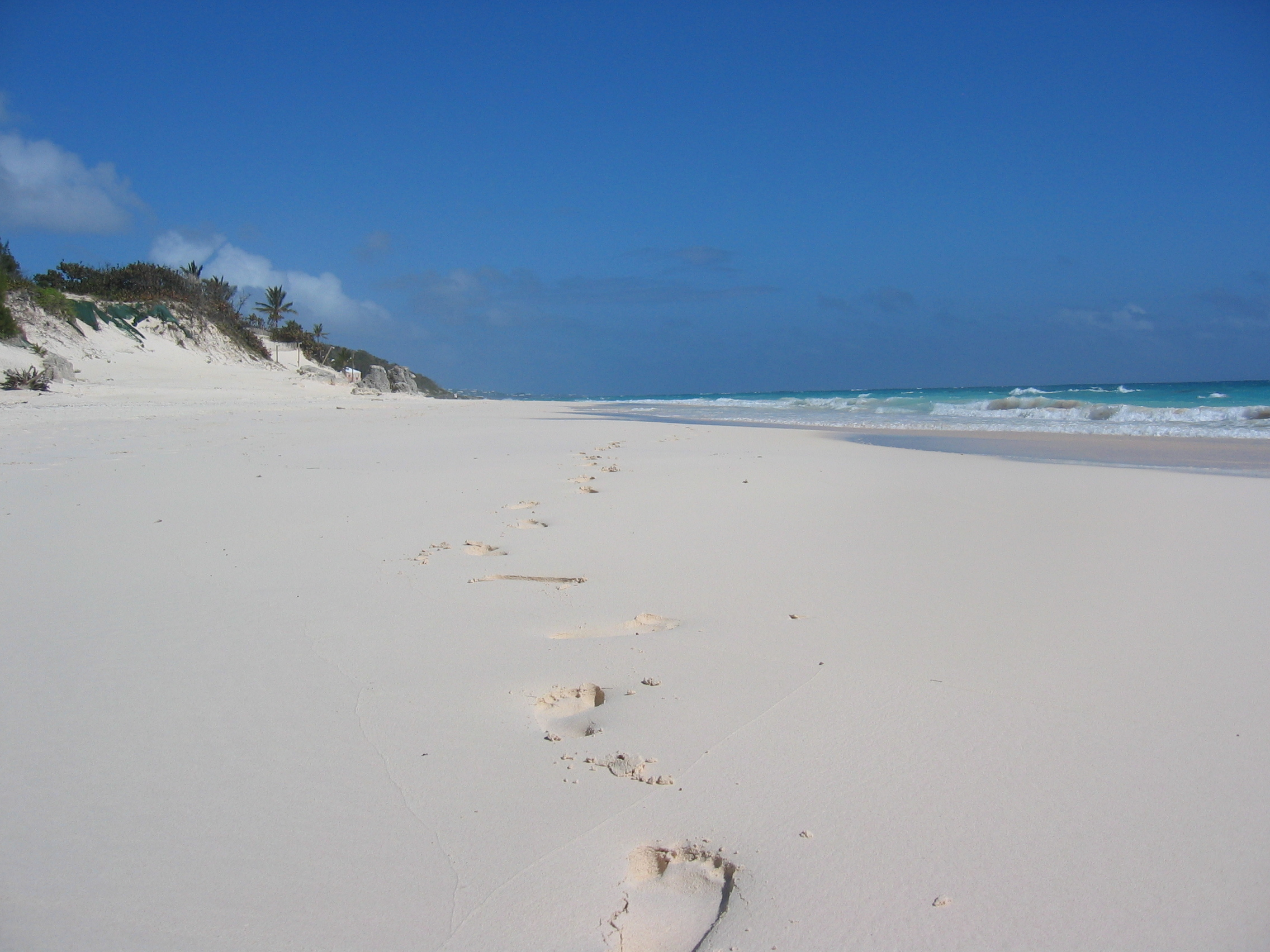 Elbow Beach, Bermuda. View looking east, with Elbow Beach Hotel behind the camera. Taken at lunchtime on 17 February 2006. Wikipedia request for a picture of Elbow Beach. Canon IXY Digital 400 camera, all on auto settings No colour correction or other changes applied.